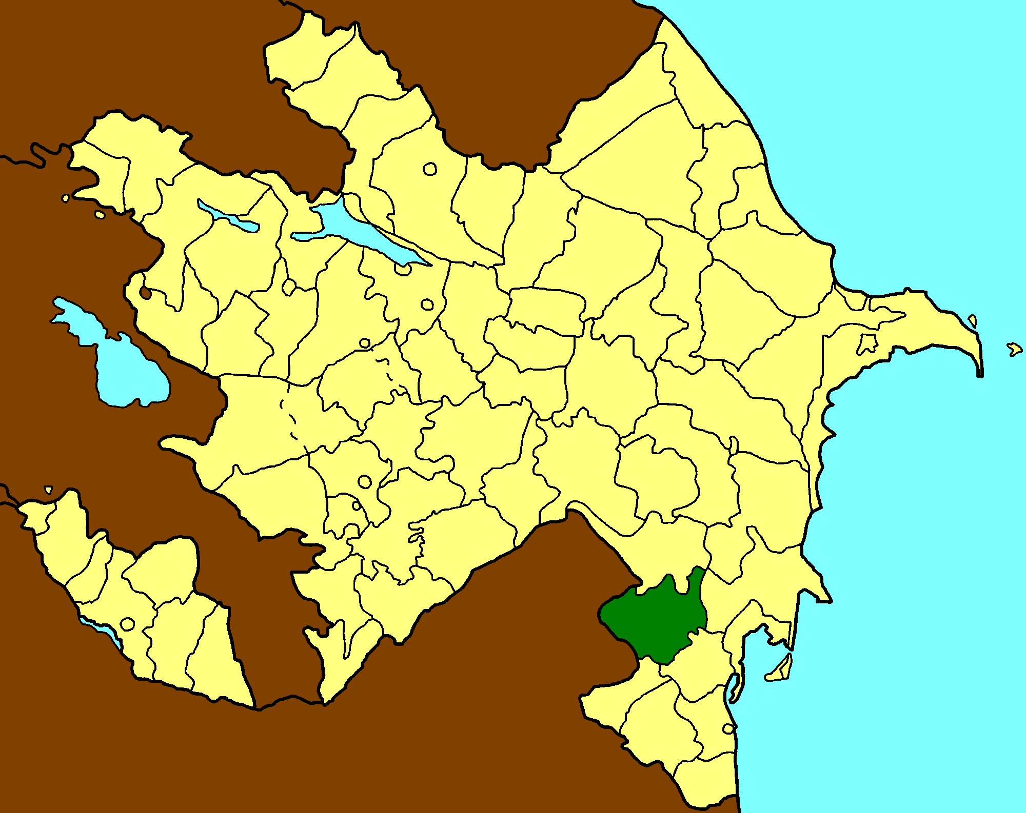 This is map of the location named of the file name.